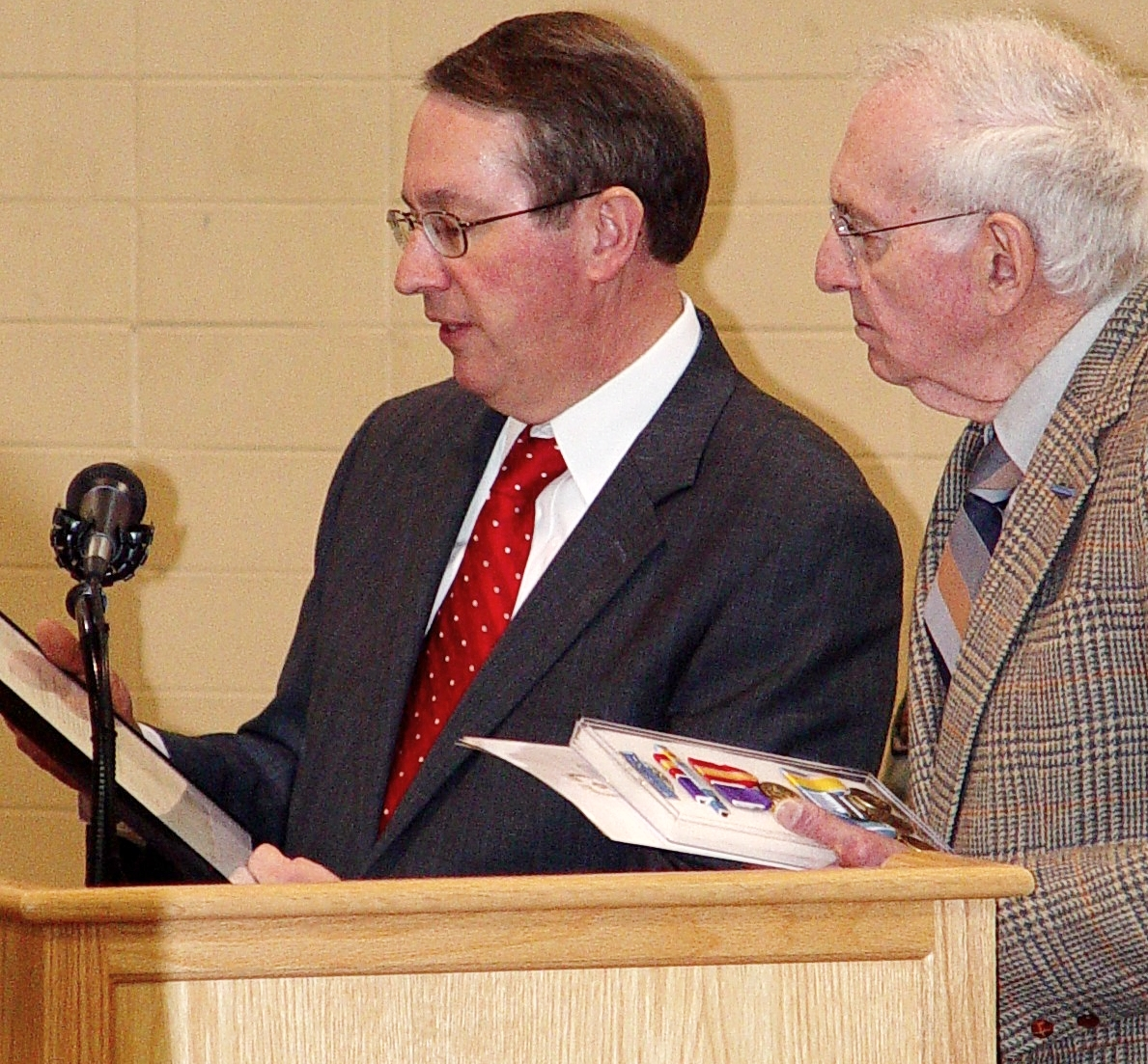 Congressman Bob Goodlatte (R, Virginia, 6th) at Virginia Army National Guard Howie Armory (Staunton, VA) during ceremony to present Korean War veteran Tom LaBerge with military awards earned during the war but not presented to the soldier until the 2009 event.[1][2] Goodlatte (left) reads to LaBerge (right) and assembled troops and journalists from a letter of greeting from the US Secretary of Defense.[3] LaBerge holds a certificate from the president of South Korea as well as a case containing military decorations including the Combat Infantry Badge, Purple Heart medal, US National Defense Medal, US Korean War Service Medal with battle-star attachment device, UN Korea Medal, and Republic of Korea War Service Medal. Notes: ↑ "Grafton native to get medals," Bismarck (ND) Tribune, 17 Feb 2009. Retv 19 Feb 2009: ↑ Westhoff, Mindi, "Vet gets overdue Korean War medals," The (Staunton, VA) News Leader, 18 Feb 2009. Retv 19 Feb 2009: ↑ ibid. [1] [2]